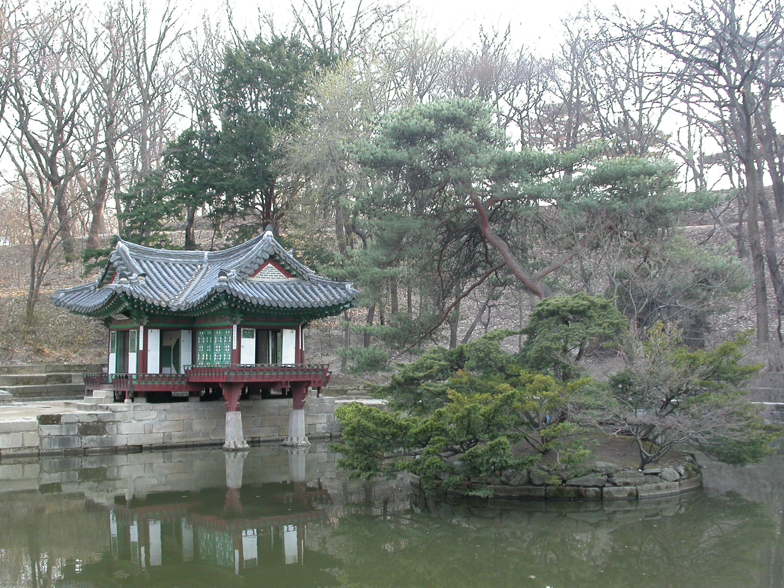 Changdeokgung Buyongjeong